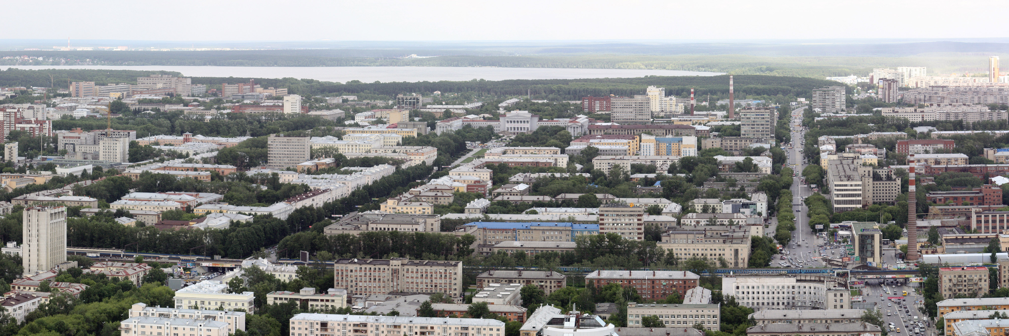 Ekaterinburg. USTU and Shartash lake